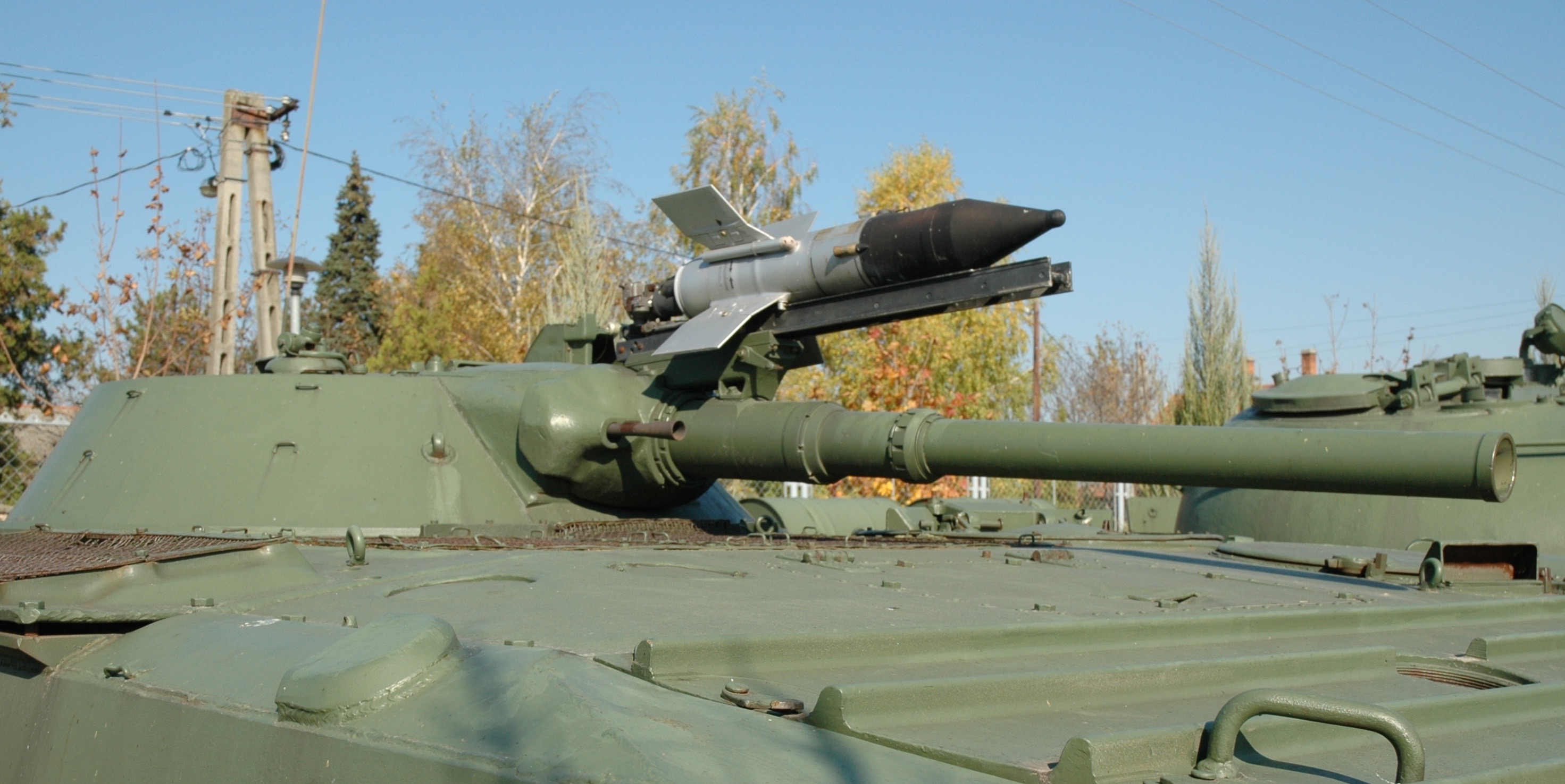 9M14 Malyutka anti-tank missile on BMP-1 APC (Army History Museum and Park in Kecel)